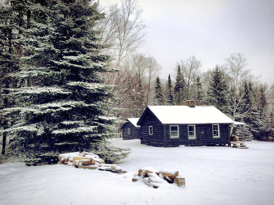 Enchanted and Brookside cabins in winter at Bulldog Camps.